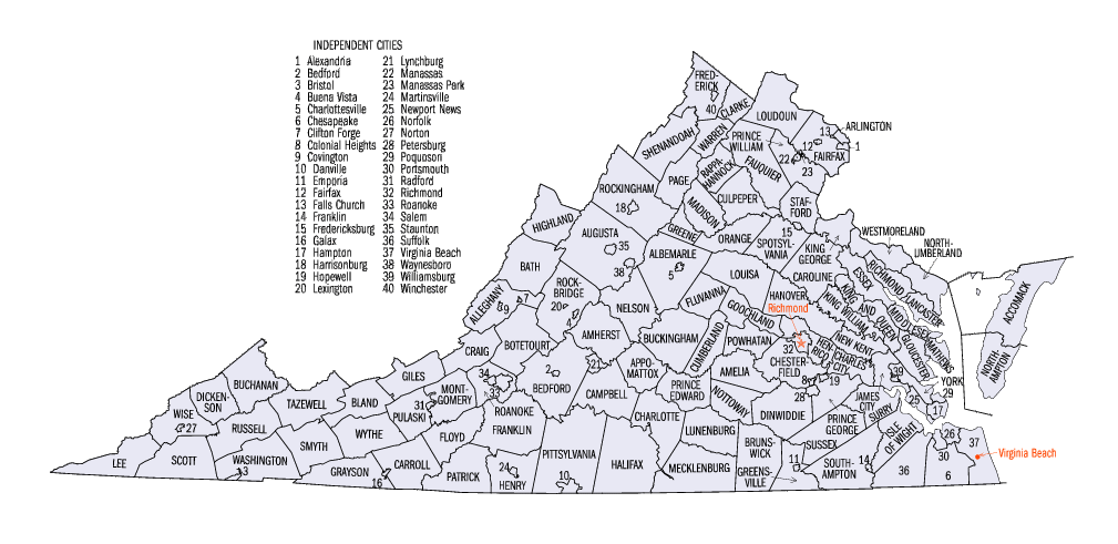 Map of Virginia counties and independent cities as of the 2000 Census.